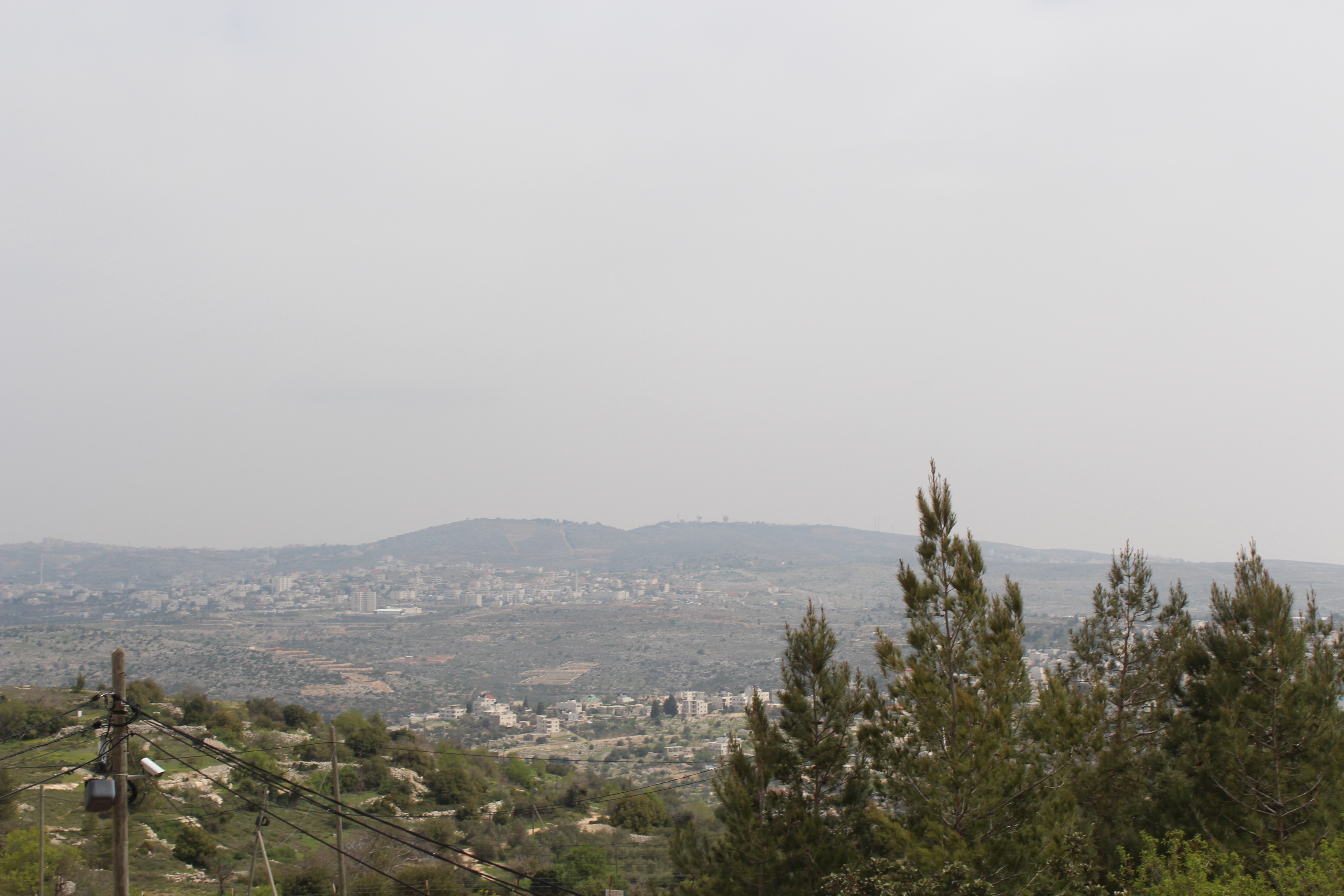 View from "Lift Your Eyes Observation Tower", top of Mount Beit El (Jabel Artis), overlooking the site of Jacob's dream, Beit El, occupied Palestine.